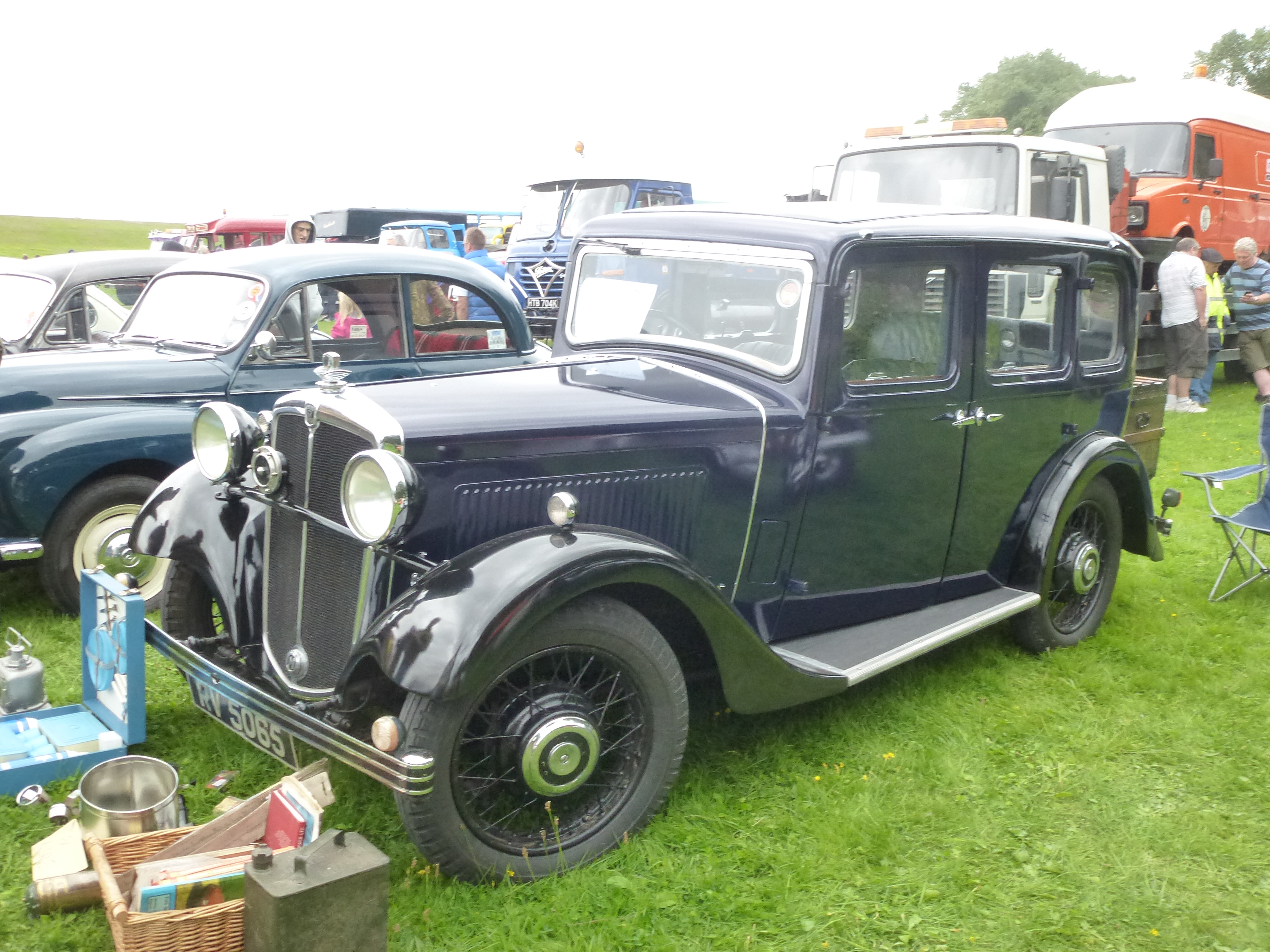 Trans Lancs Rally Event, Heaton Park, Manchester. Portsmouth registration. 01/09/2013 Details from the DVLA: Date of Liability 01 04 2014 Date of First Registration 16 05 1934 Year of Manufacture 1934 Cylinder Capacity (cc) 1482cc (1548!) CO₂ Emissions Not Available Fuel Type PETROL Export Marker N Vehicle Status Licence Not Due Vehicle Colour BLUE